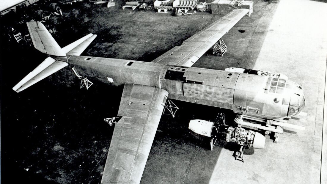 First Ju 287 prototype (Ju 287 V1) nearing completion at Brandis